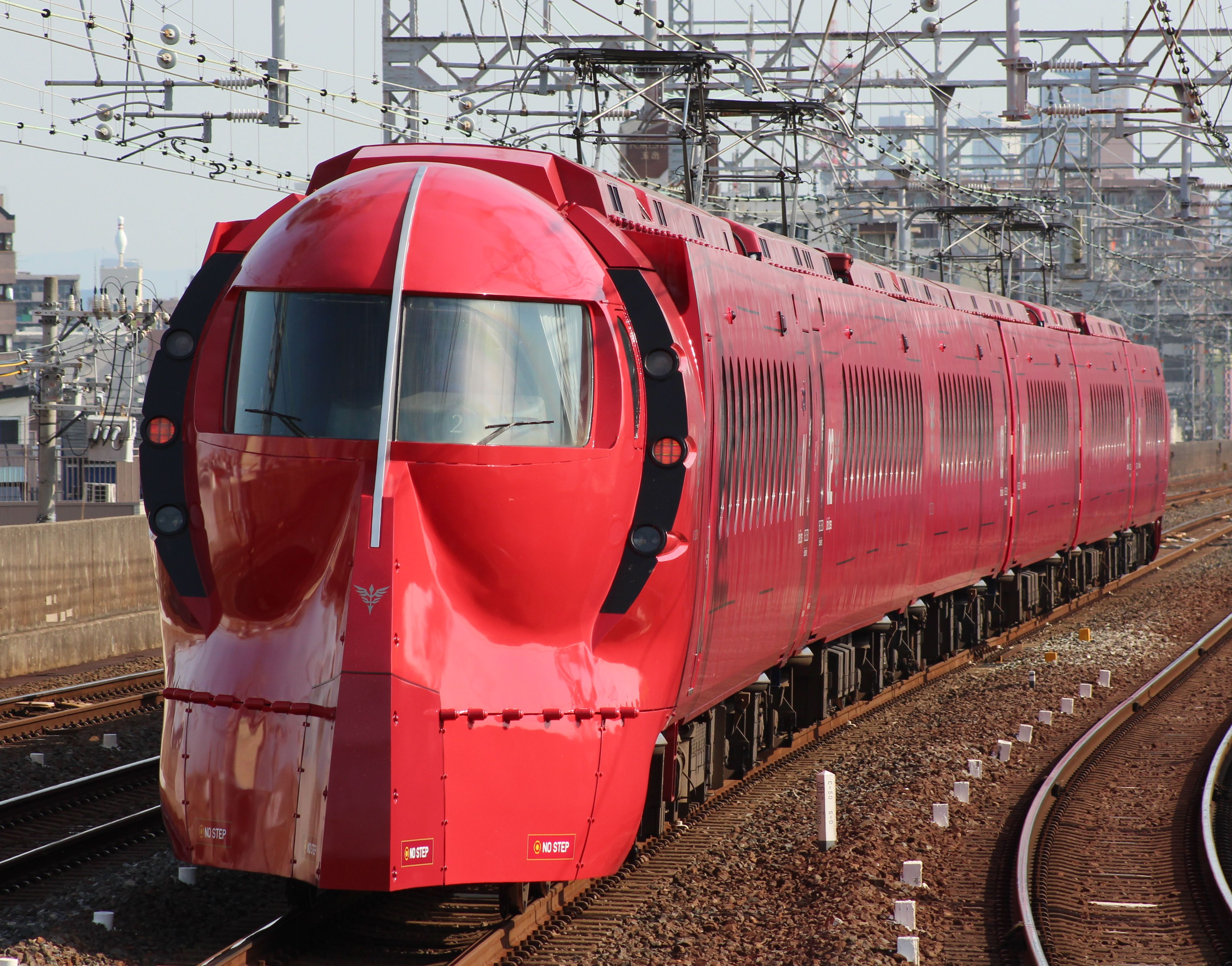 A Nankai 50000 series EMU repainted in a "Gundam Neo Xeon Version" tie-up red livery